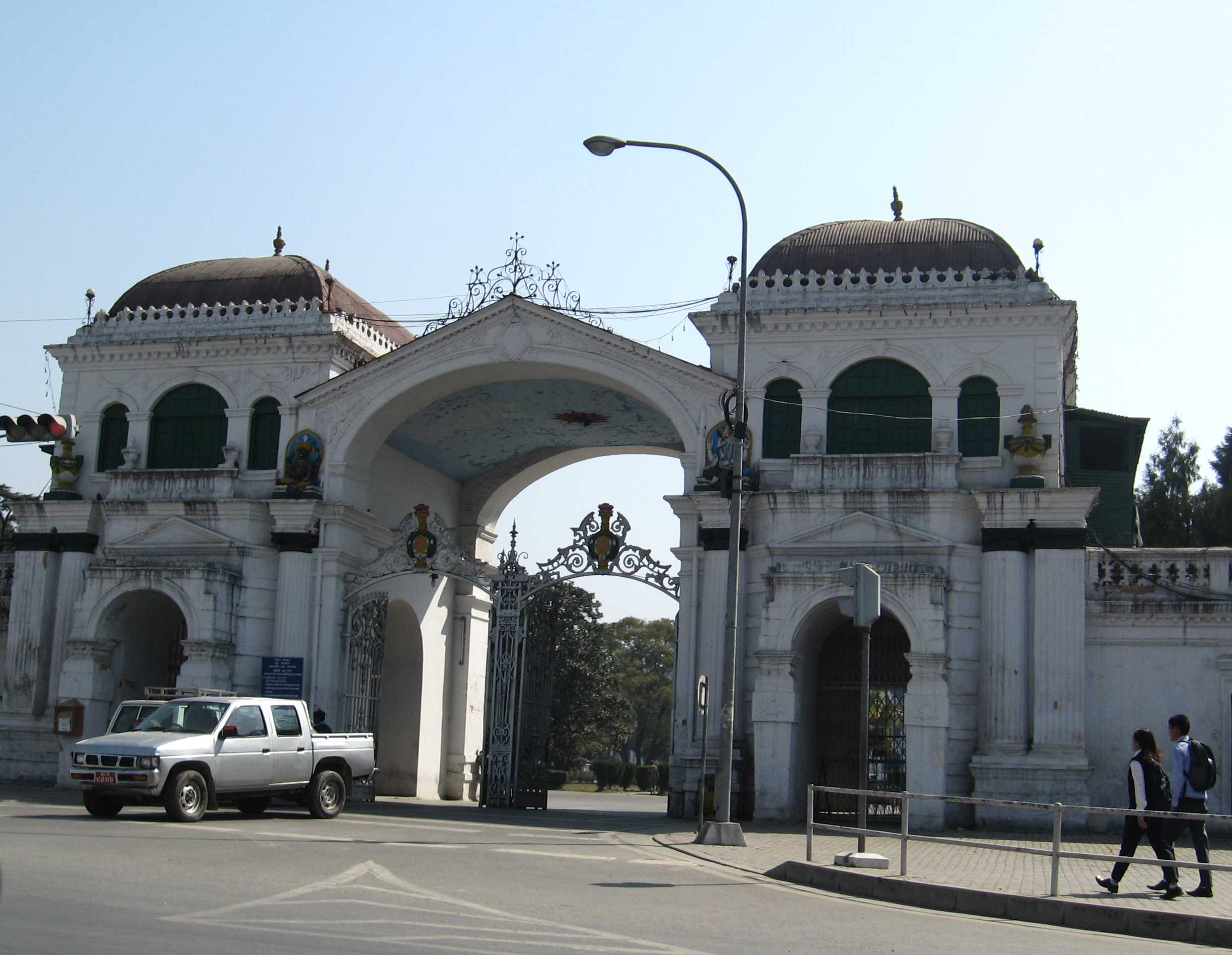 The Ministry of finance in Kathmandu.